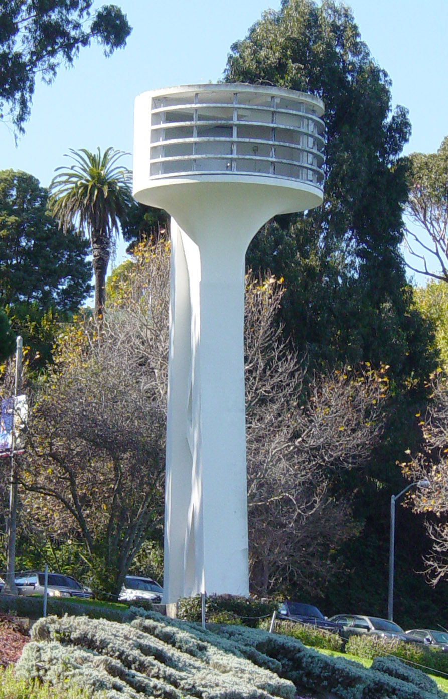 Example of Streamline Moderne style in a judge's tower at San Francisco's Aquatic Park. Image by User:Leonard G.